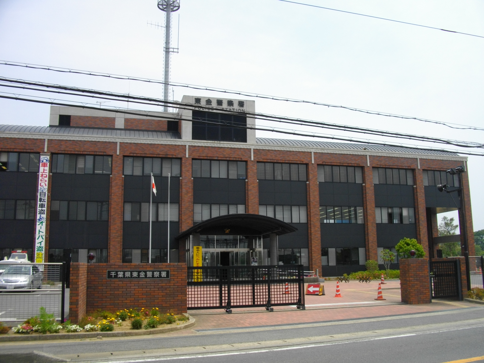 Togane Police Station